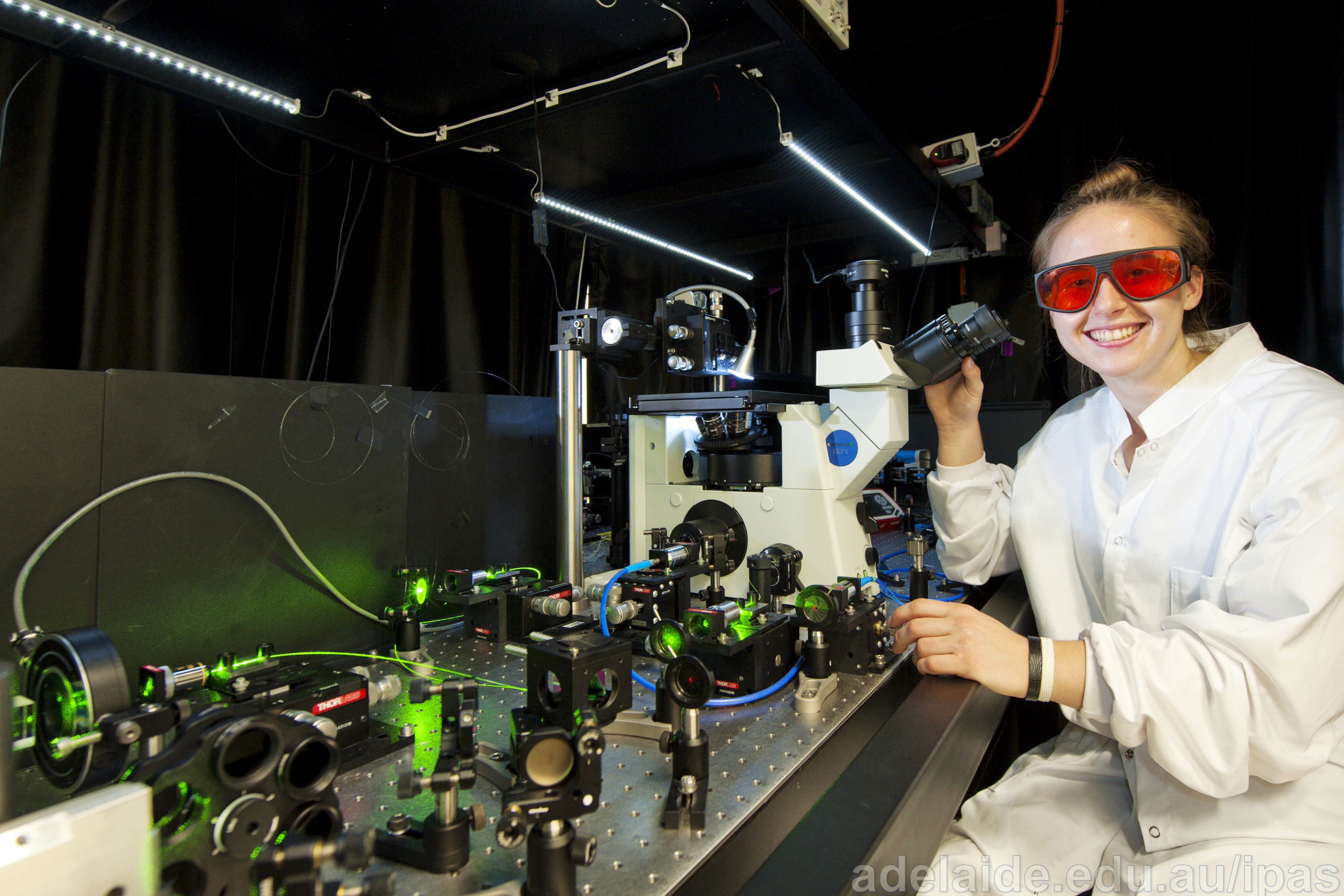 IPAS PhD Student Tess Reynolds showcasing her optical biosensor at The Institute for Photonics and Advanced Sensing (IPAS) Artist: Jennie Groom Giving Attribution: Permission to use this image has been granted in advance. Please do the right thing by giving attribution: - as a hyperlink to this image on flickr (where possible) - image courtesy of Professor Andre Luiten .au/ipas 053-2013_IPAS_46